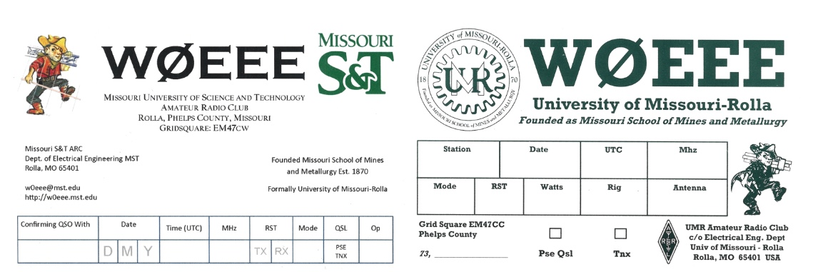 QSL Card for Missouri S&T Amateur Radio Station